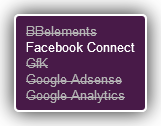 Ghostery's overlay with blocked 4 out of 5 trackers